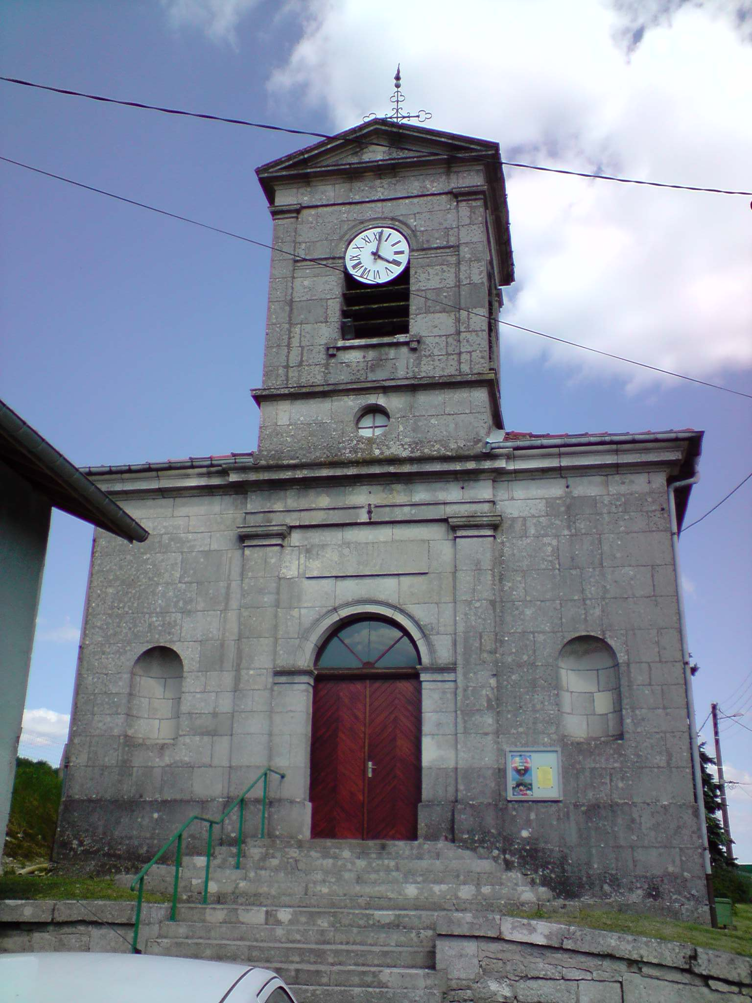 Church of the city of Delouze, Meuse, France.